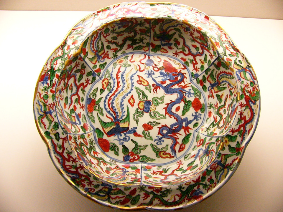 Chinese Porcelain Polychrome Basin in Tokyo National Museum. Ming Dynasty, Wan Li era